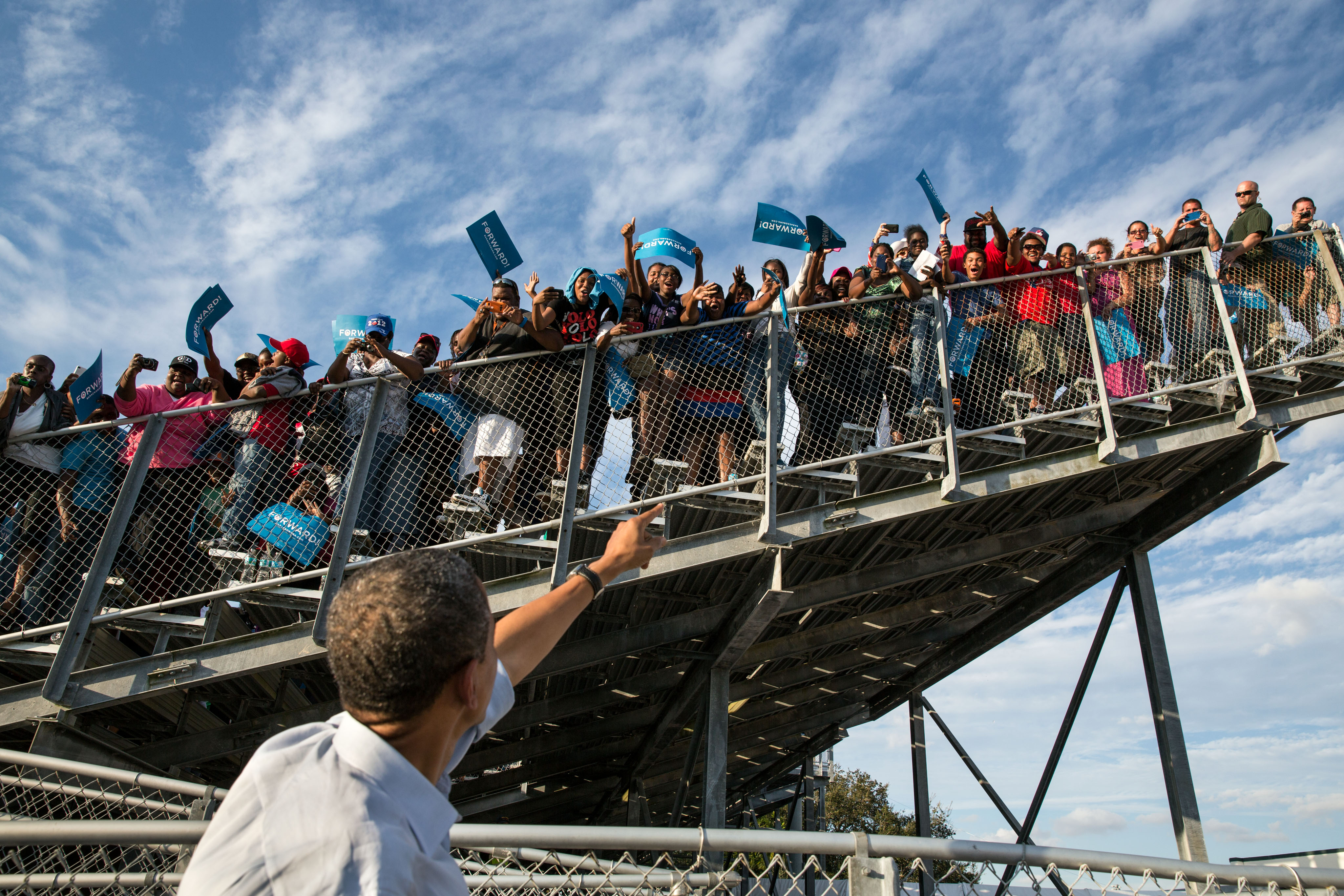 President Barack Obama acknowledges the crowd during an event at McArthur High School in Hollywood, Fla., Sunday, Nov. 4, 2012. (Official White House Photo by Pete Souza)